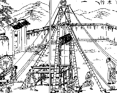 Drilling a rig for salt in China